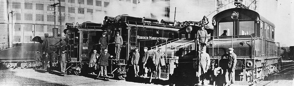 Locomotives of the Hoboken Manufacturers Railroad (HMRR). The picture shows from left to right: two unknown steam engines, GE/I-R 100 ton Boxcab #600 (delivered December 31, 1928), GE/I-R 70 ton Boxcab #500 (delivered December 31, 1928), GE 28.5 ton electric steeplecab locomotive (starting operation 1898) and electric locomotive #3